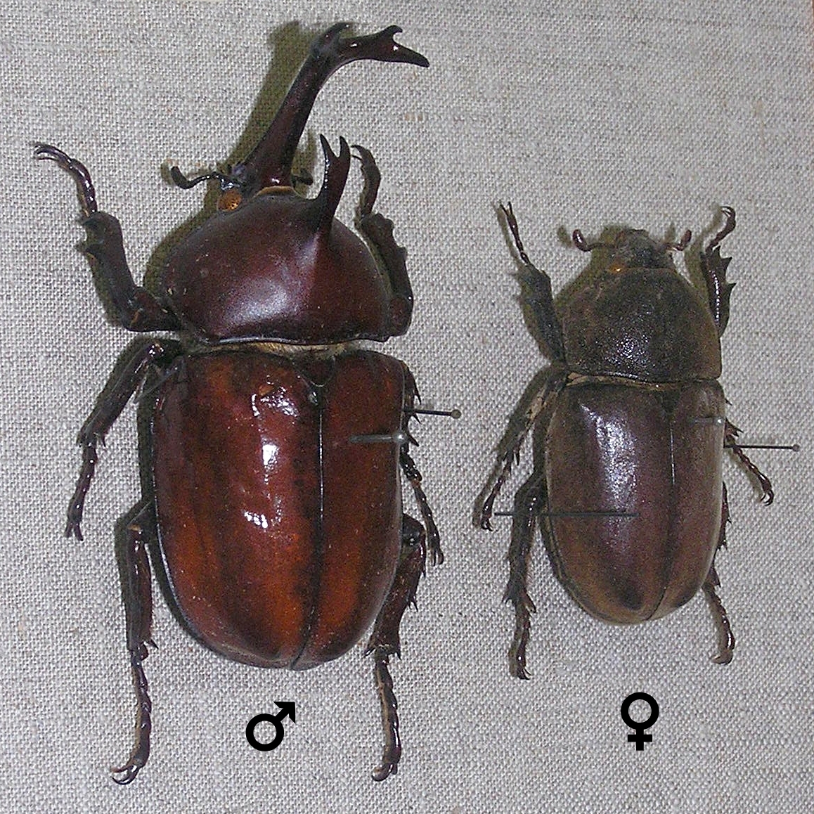 Allomyrina dichotomus = Trypoxylus dichotomus